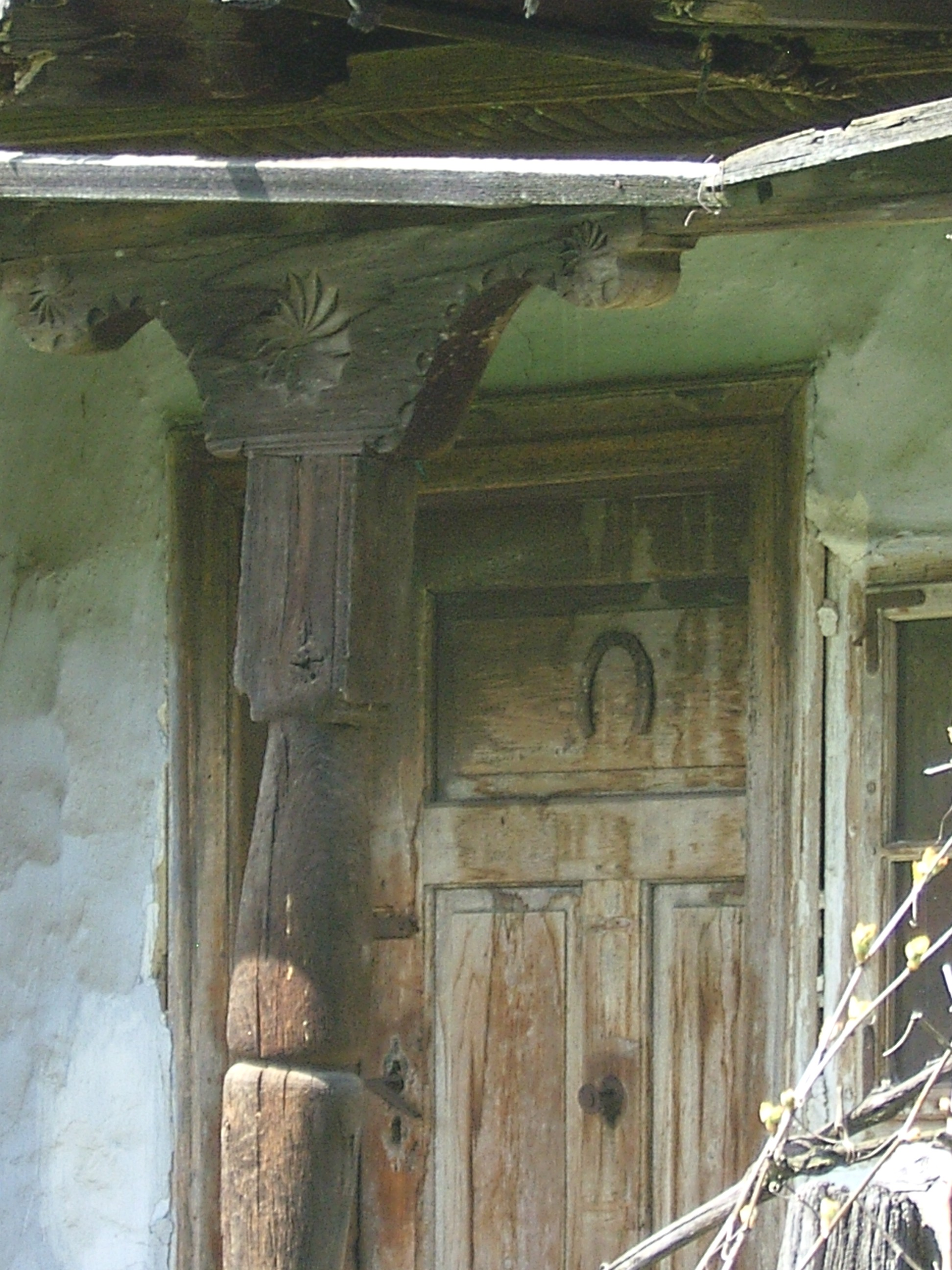 Pillar of the arcade in a village building, Nearşova (hu. Nyárszó) Transylvania